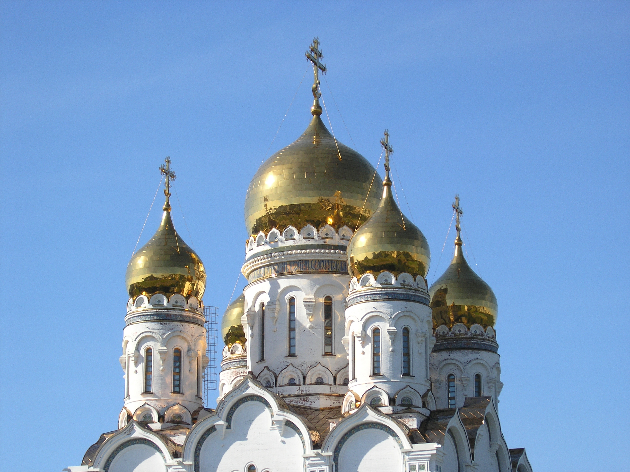 Preobrazhensky Sobor, Togliatti, Russia